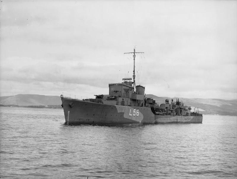 Photograph of British Hunt class destroyer HMS Holcombe underway on completion.